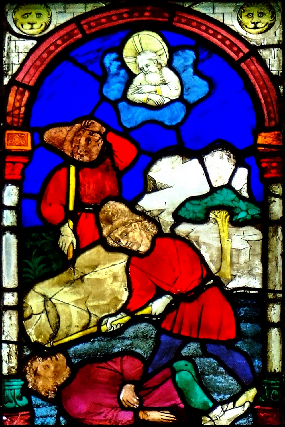 The Lutheran cathedral "Ulm Münster" of Ulm/Germany, "Cain killing Abel" by Hans Acker (1430) - detail of the coloured window of the besserer-chapel